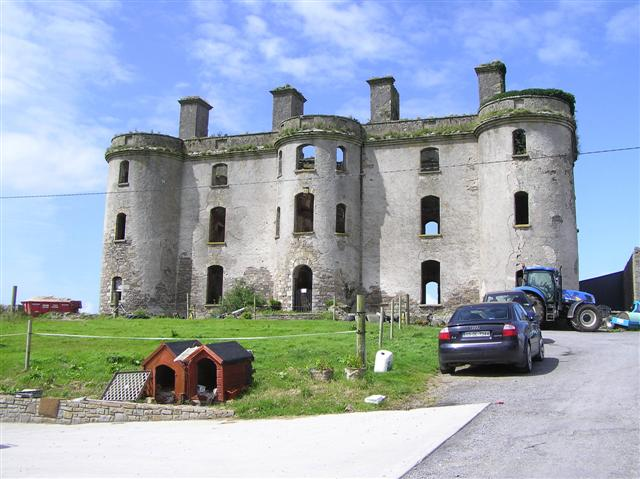 Wardtown Castle I think the front view looks much better than the rear elevation - this was a "landlord's house"; when the rates were abolished the house came into dis-repair after funds were not available for its upkeep, and its demise was accelerated by the fact that the roofing materials were removed by the poor tenants. The dwelling, I understand was occupied by a Henry Folliott in the early 1600s. He was created Baron Folliott, of Ballyshannon, in the Peerage of Ireland on 22 January 1620.